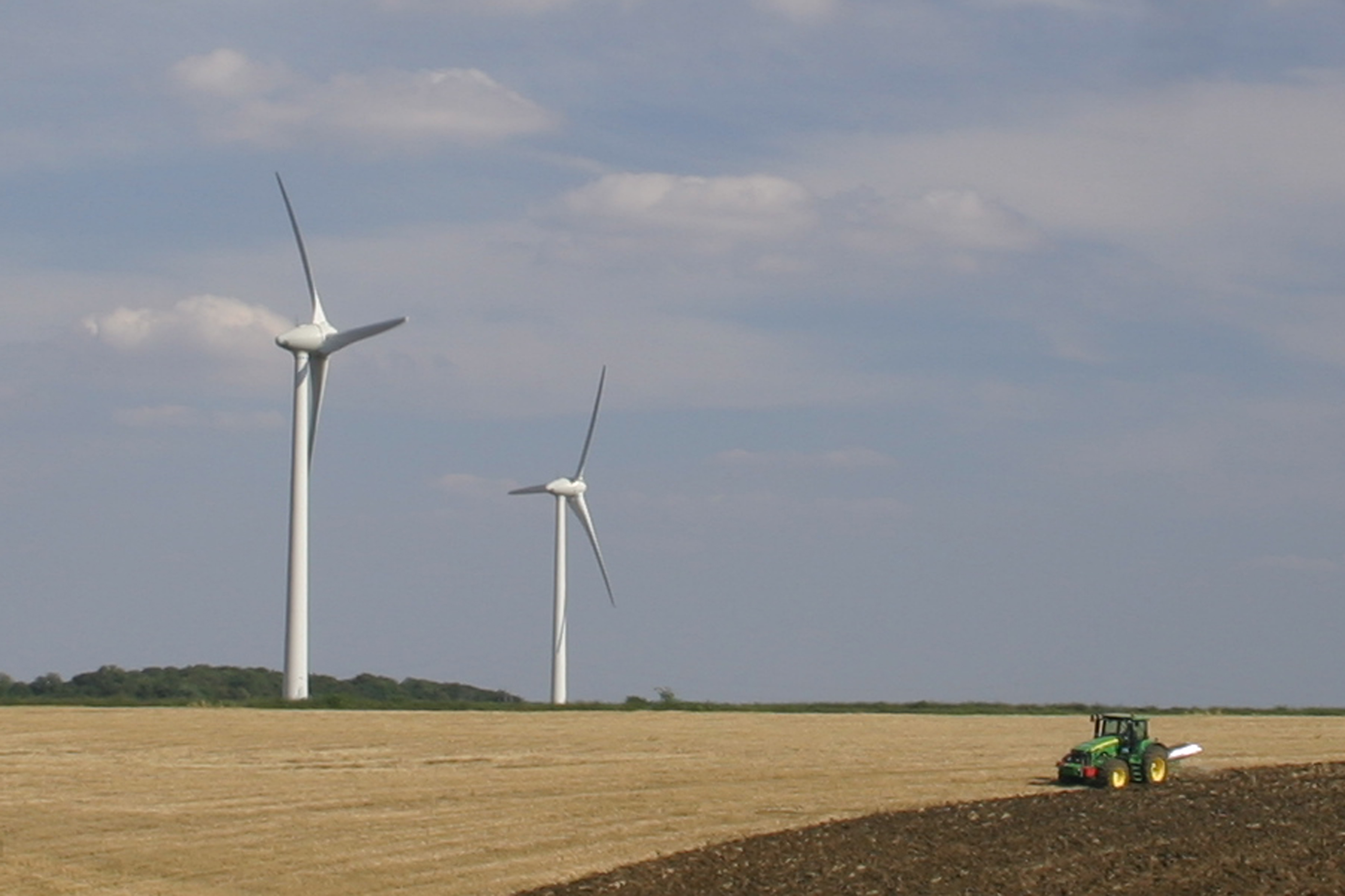 Burton Wold Wind Farm and tractor